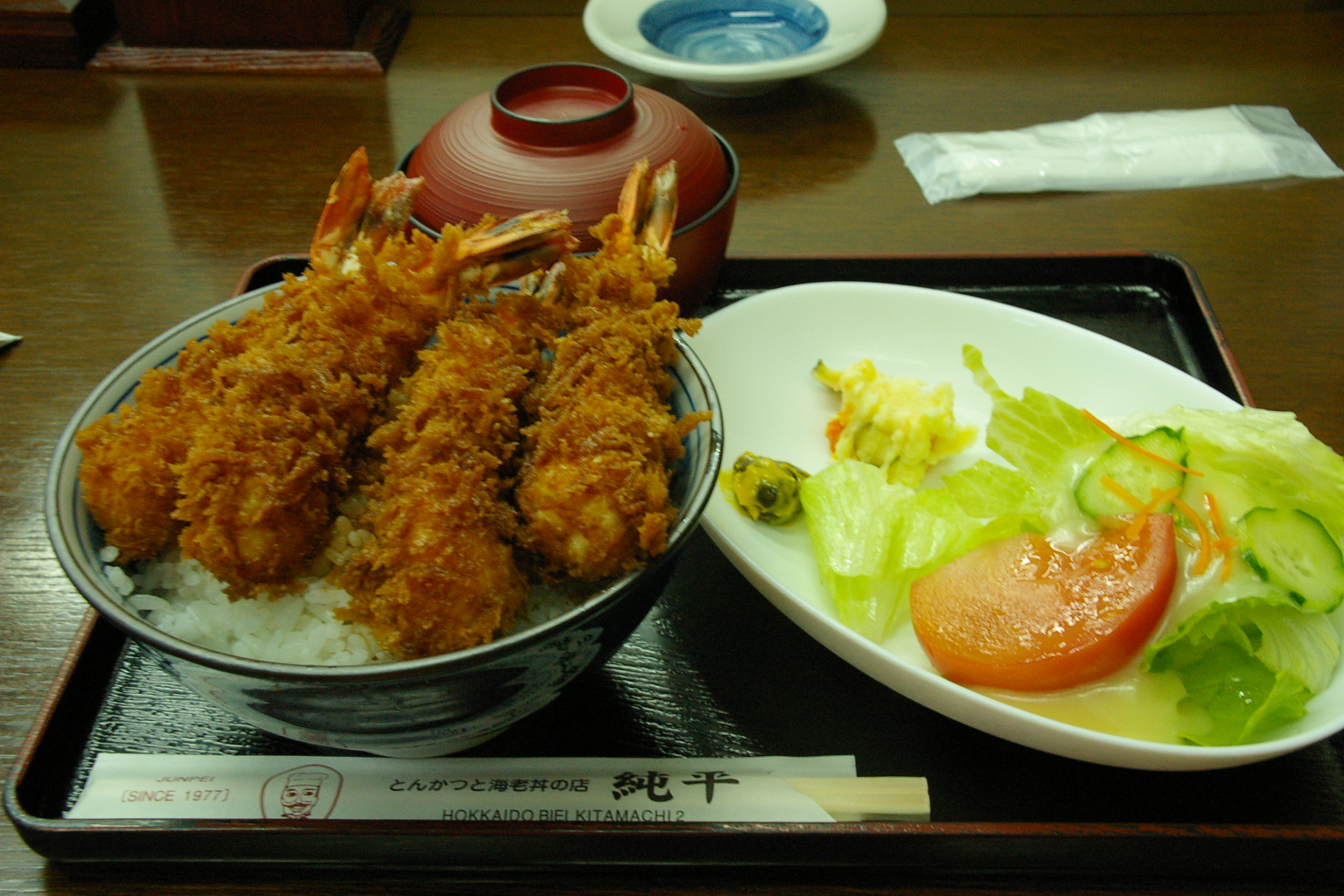 Ebi-don, a bowl of rice topped with fried shrimps.